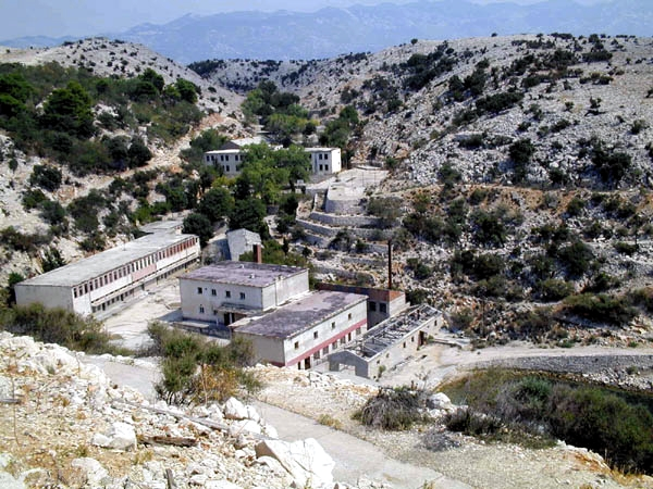 Goli otok prison from Premission in Serbian